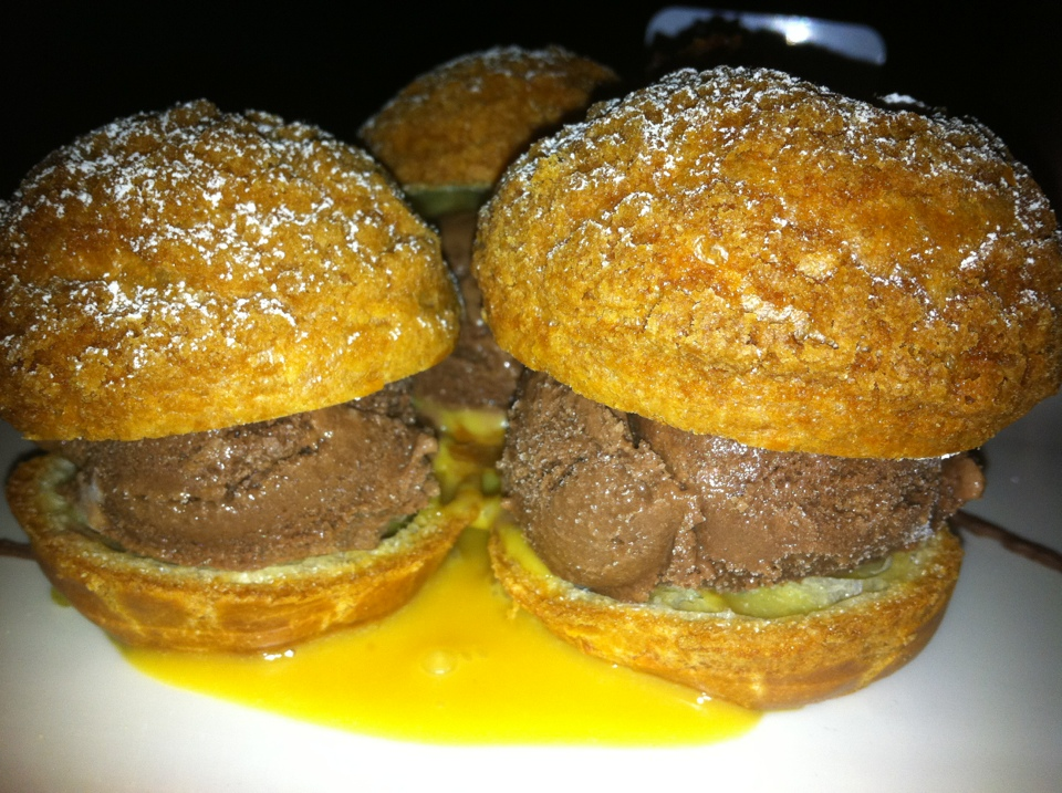 ice cream sandwich Paul Song